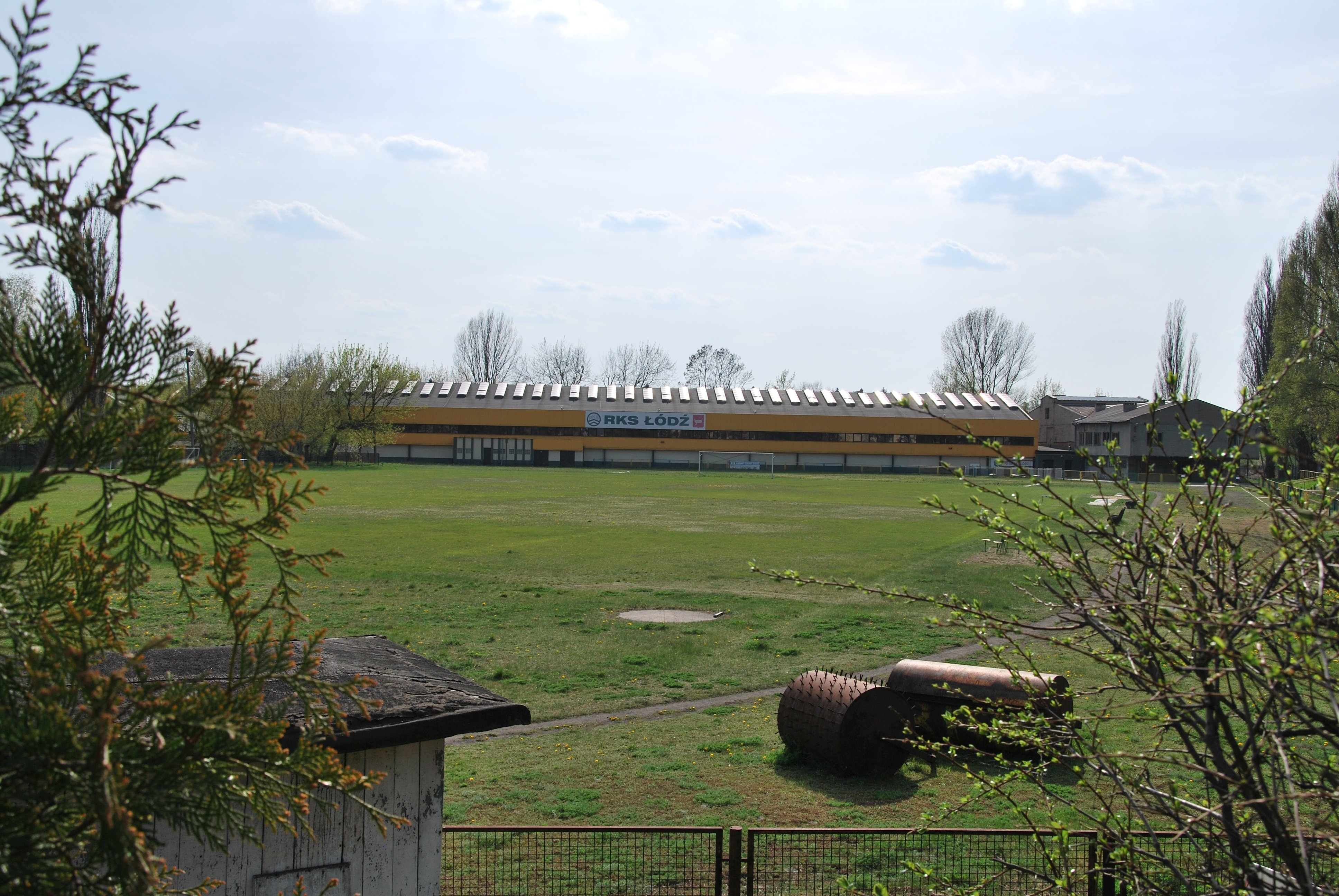 RKS Łódź sportsclub arena, Rudzka Street